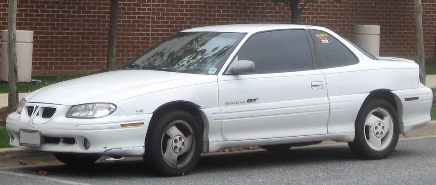 1996-1998 Pontiac Grand Am photographed in College Park, Maryland, USA.